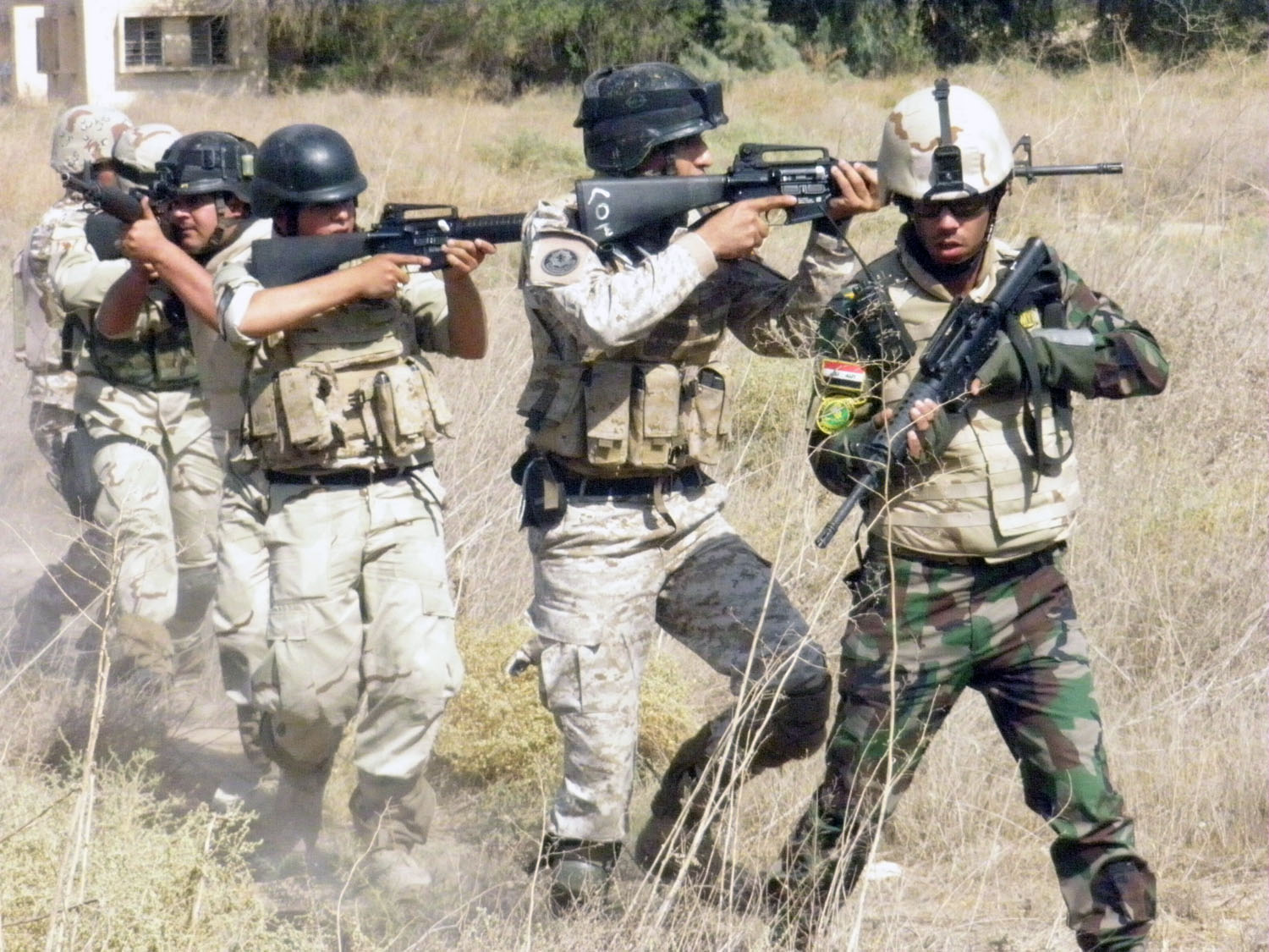 CAMP TAJI, Iraq- Soldiers from the 37th Brigade, 9th Iraqi Division, move into position to clear a building during a simulated training exercise here, Oct. 15. The exercise tested the IA Soldiers' comprehension of the weeklong training they received from Soldiers of the 1st Battalion, 82nd Field Artillery Regiment, 1st Brigade Combat Team, 1st Cavalry Division.